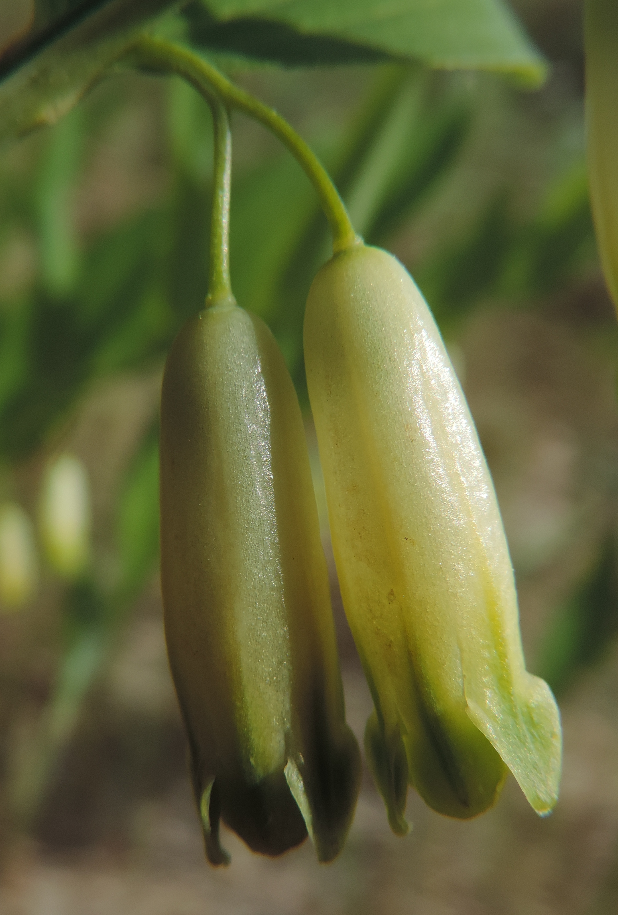 Flowers of Polygonatum odoratum. Kołobrzeg (N Poland)